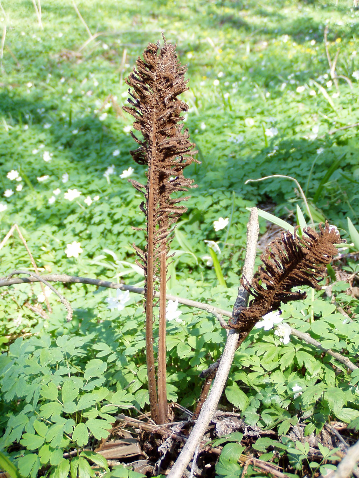 Matteuccia struthiopteris, sporophyll